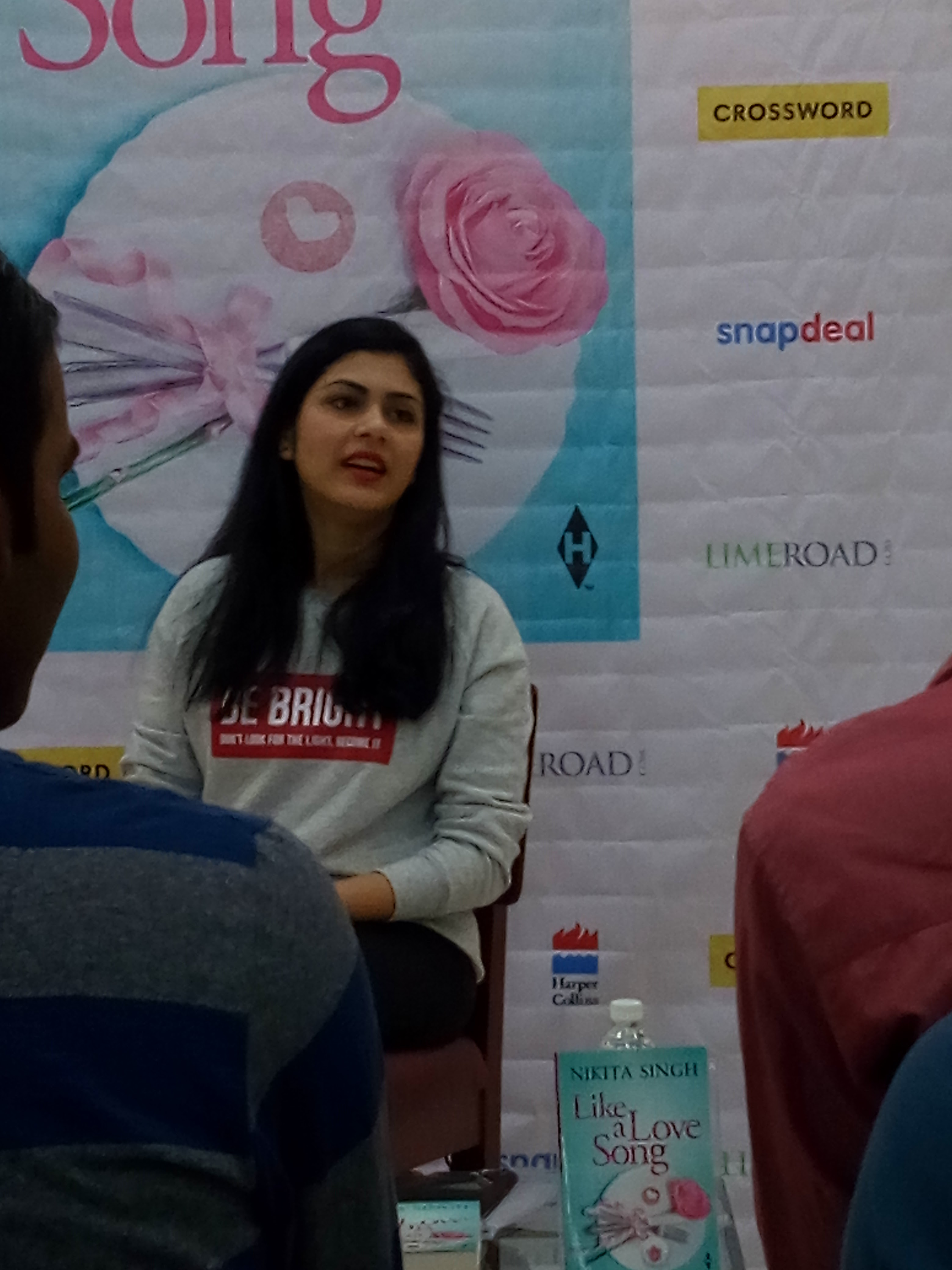 Nikita Singh